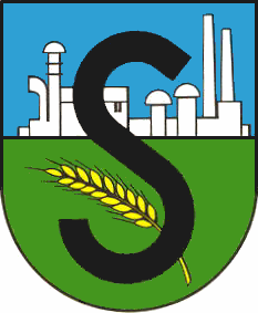 Historic Coat of Arms of Schwarzheide First upload in de-wp: LI (01:04, 11. Apr. 2005)